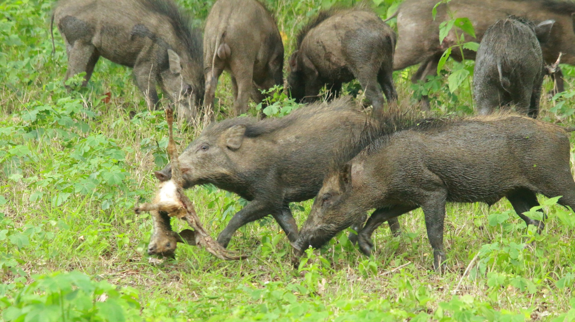 Wild boar attacking spotted dear calf photo from parambikulam tiger reserve